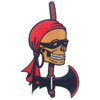 Piratas Villena